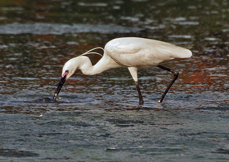 Little Egret Egretta garzetta in Kolkata, West Bengal, India.